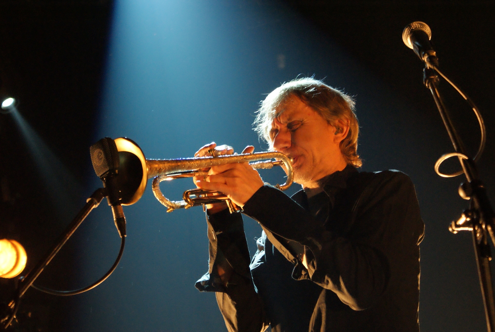 Erik Truffaz playing trumpet live at Brno, Czech Republic.